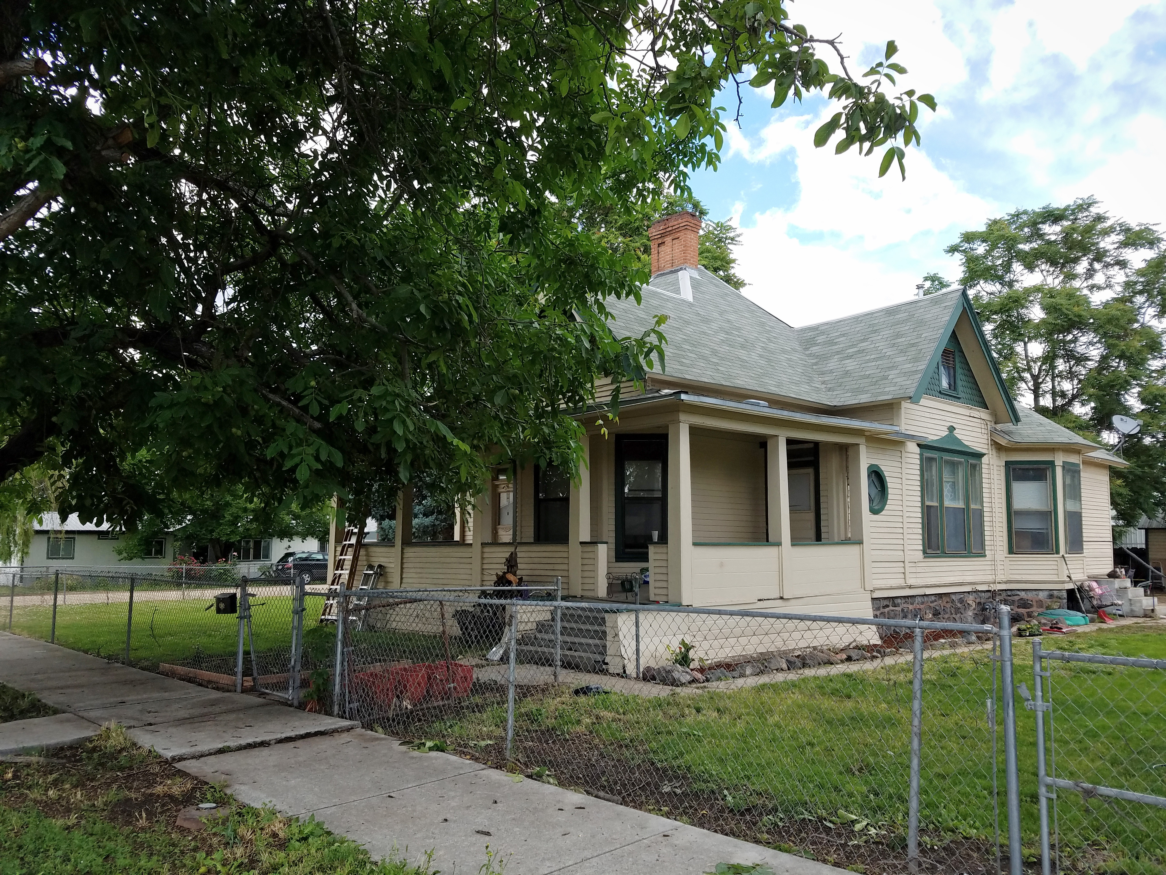 The Queen Anne style Thomas K. Little House was constructed in 1896 and is listed on the National Register of Historic Places.